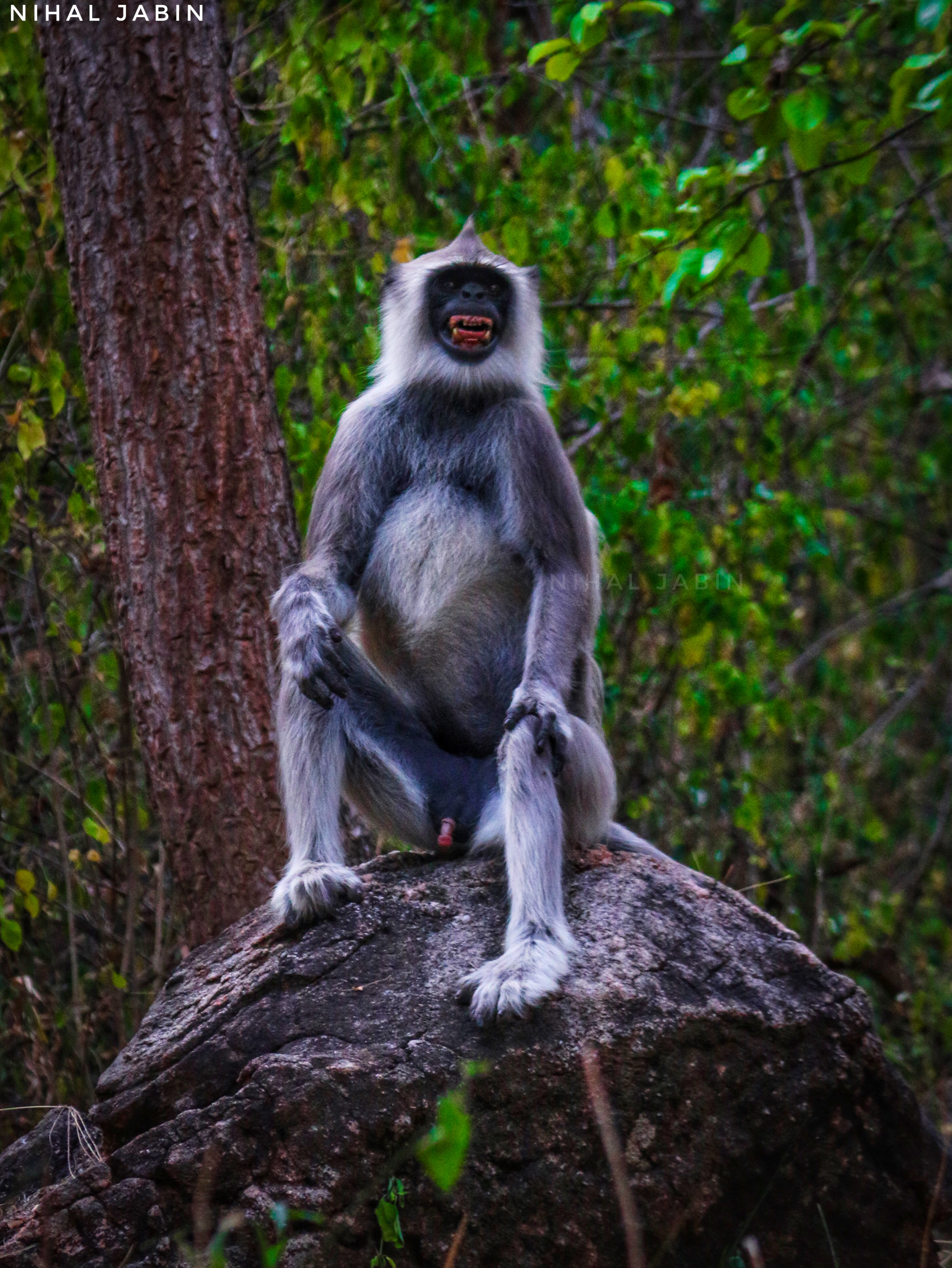 The tufted gray langur (Semnopithecus priam) , also known as Madras gray langur, and Coromandel sacred langur.